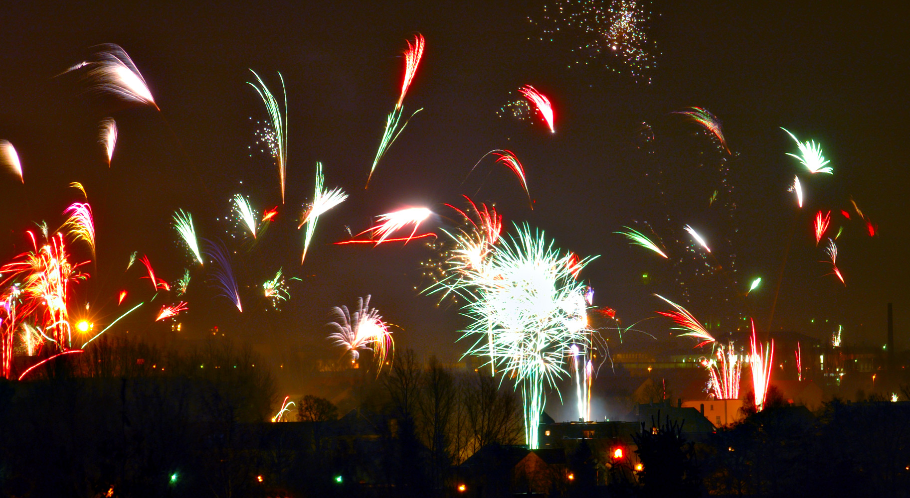 This image shows fireworks in Zwickau (Saxony, Germany).